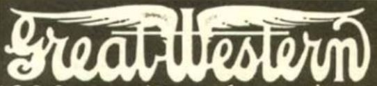 Great Western Automobile Co., Peru, Ind., 1910-1916.